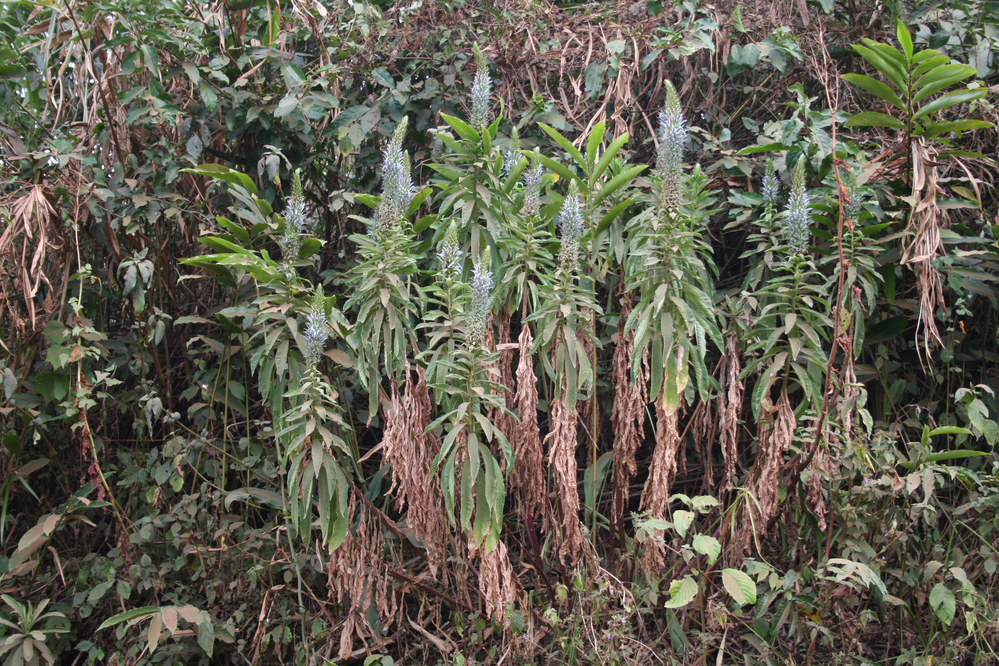 Lobelia columnaris, Laikom, NW Province, Cameroon